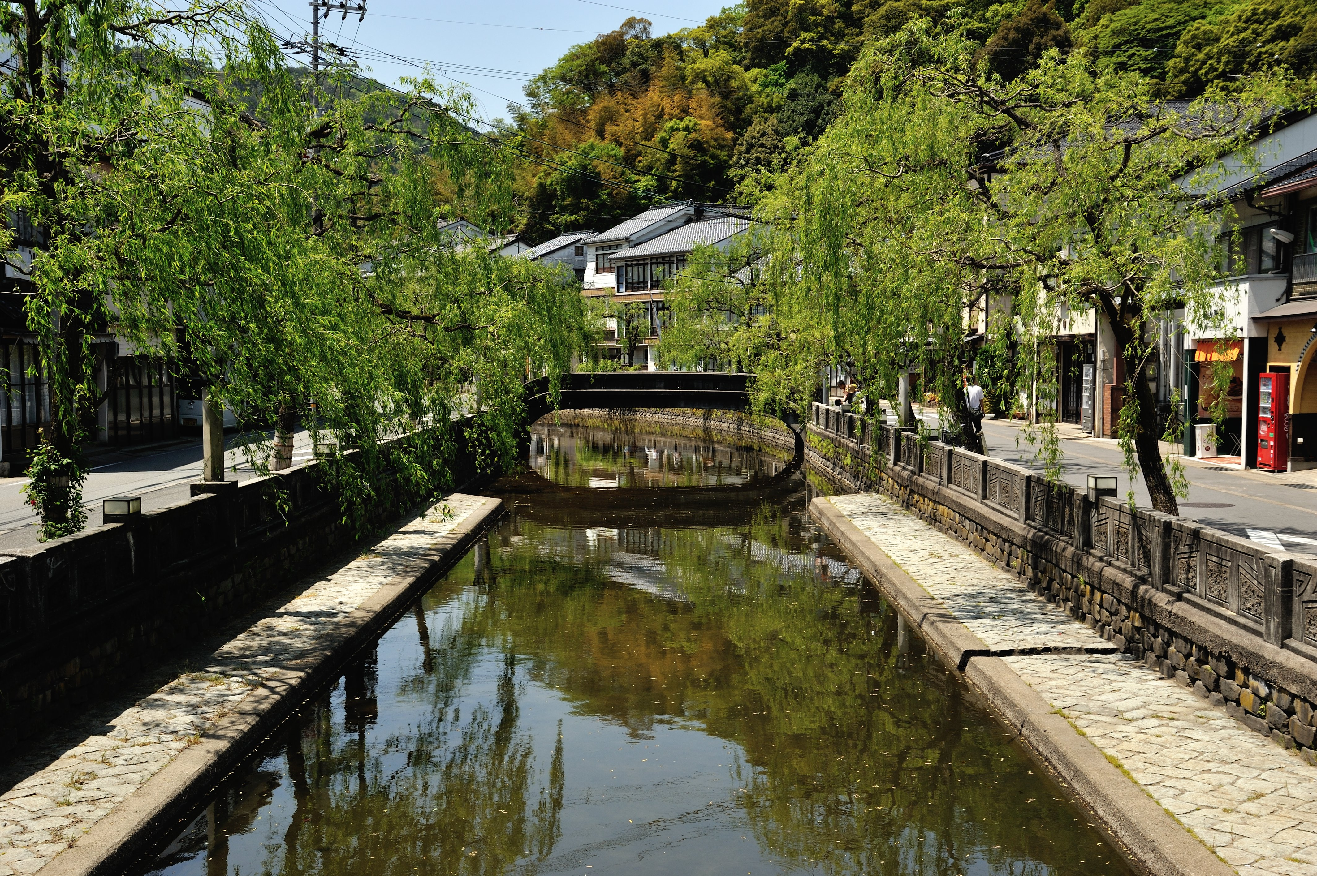 Kinosaki Onsen by day. Taken by Shogo Nishiyama.